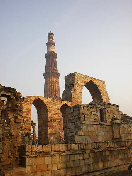 Qutub Minar, I took pic in Delhi